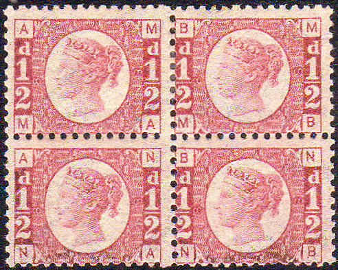 British 1870 half penny plate 8 stamps.